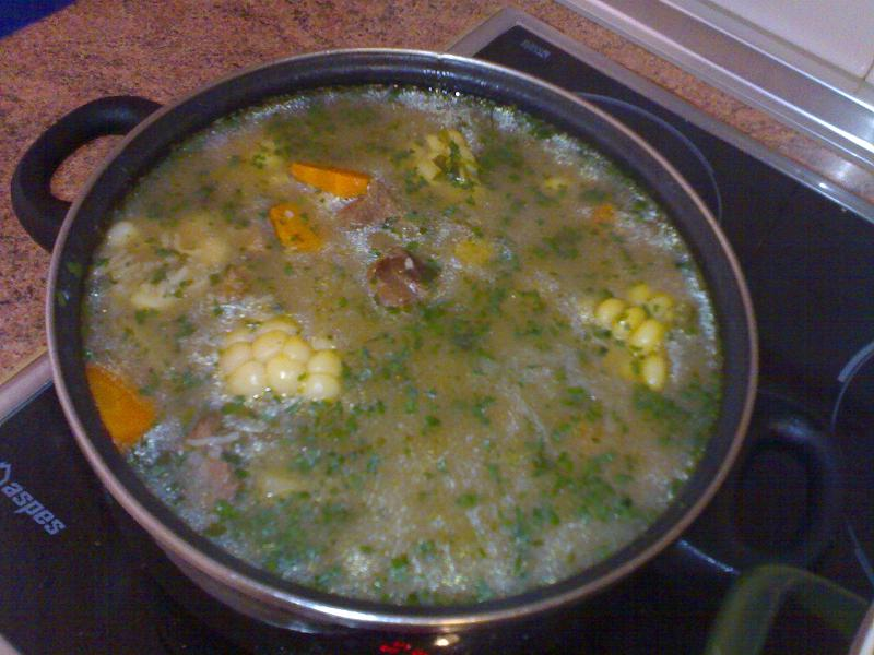 homemade sancocho by myself